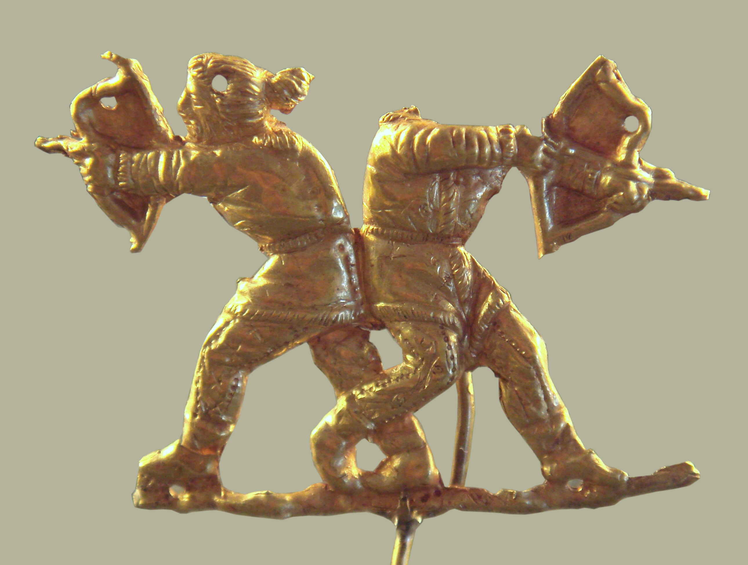 Scythians shooting with bows. Kertch (antique Panticapeum, Ukraine). 475-450 BC.